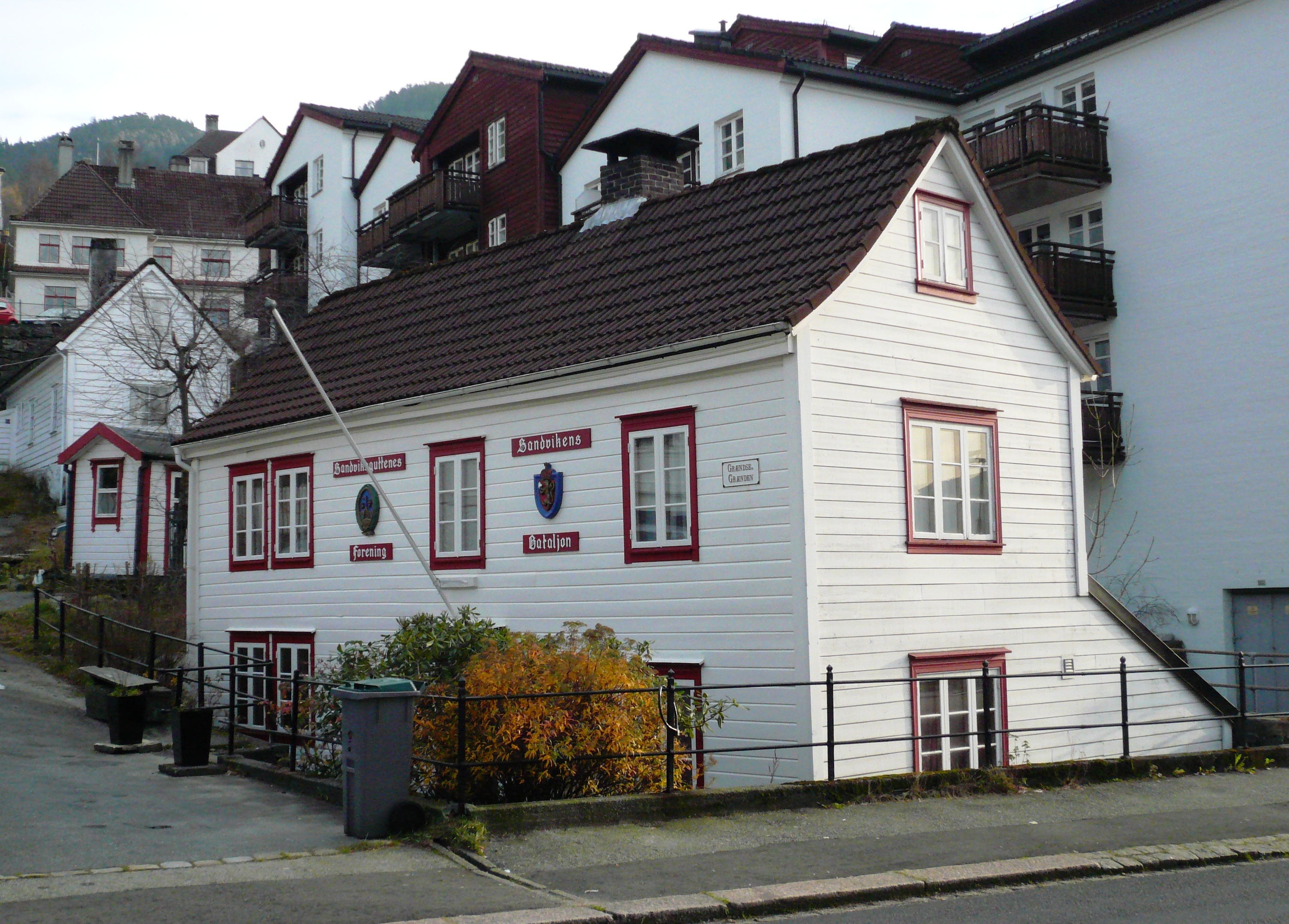 Grensegrenden, Sandviken, Bergen, Norway